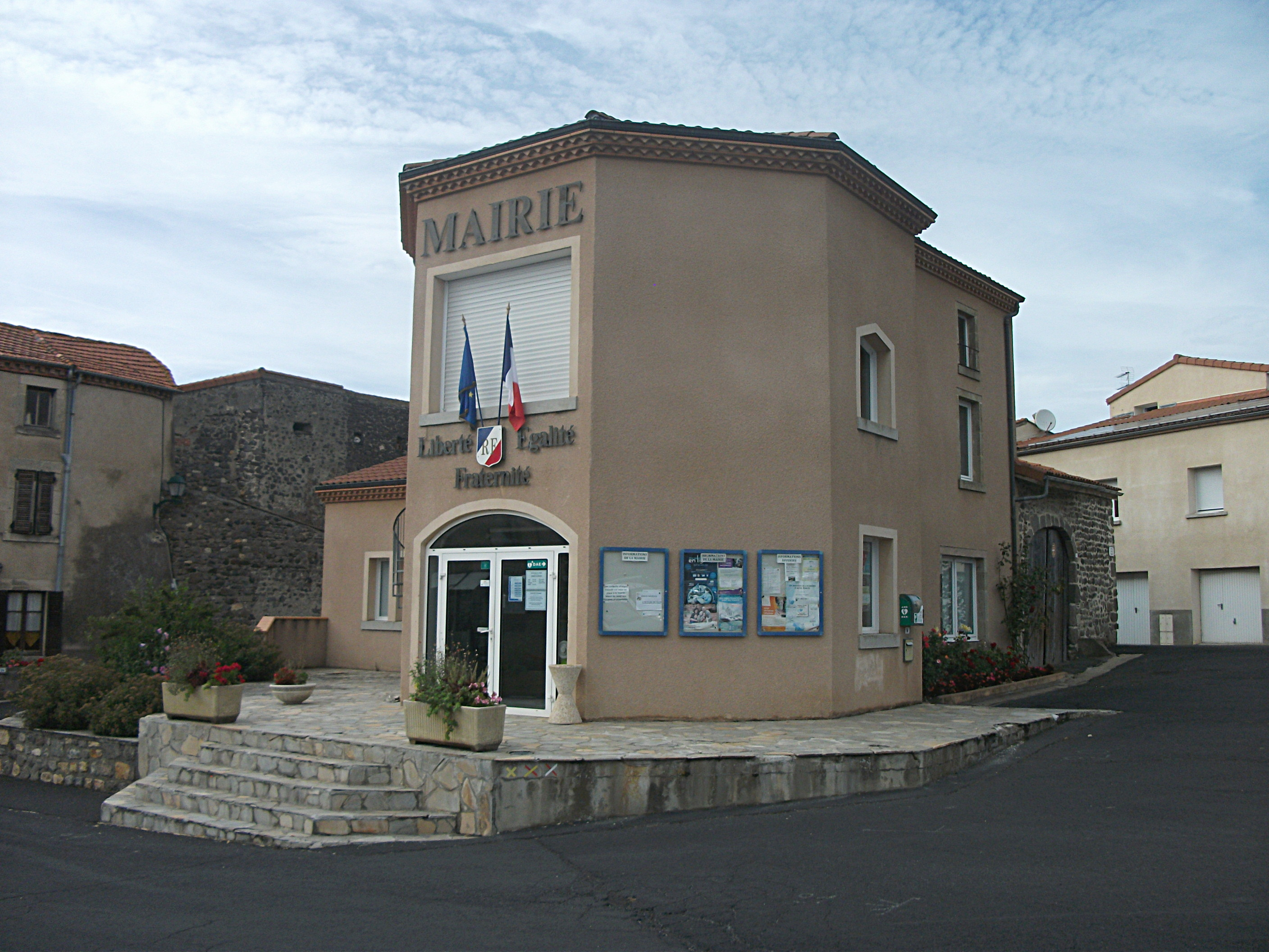 Town hall of Pardines, Puy-de-Dôme, Auvergne-Rhône-Alpes, France. [18960]